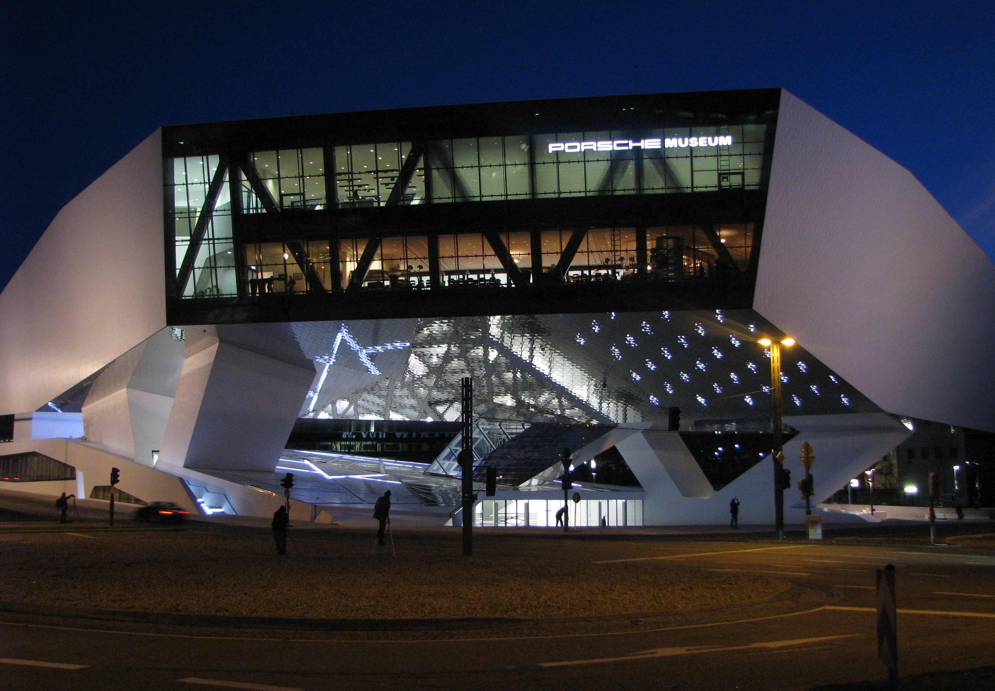 2009 Porsche-Museum main entrance